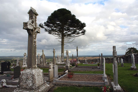 Cemetary on Slane Hill near Slane in Ireland.